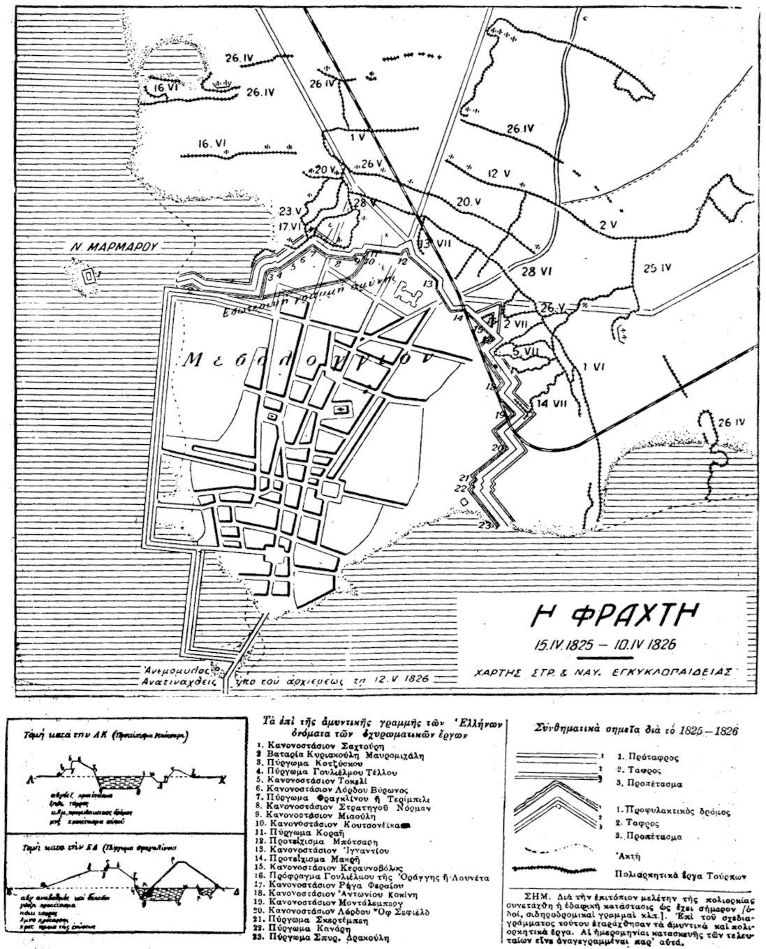 Map in Greek of the siege of Messolonghi by the Ottomans and Egyptians in 1825-1826